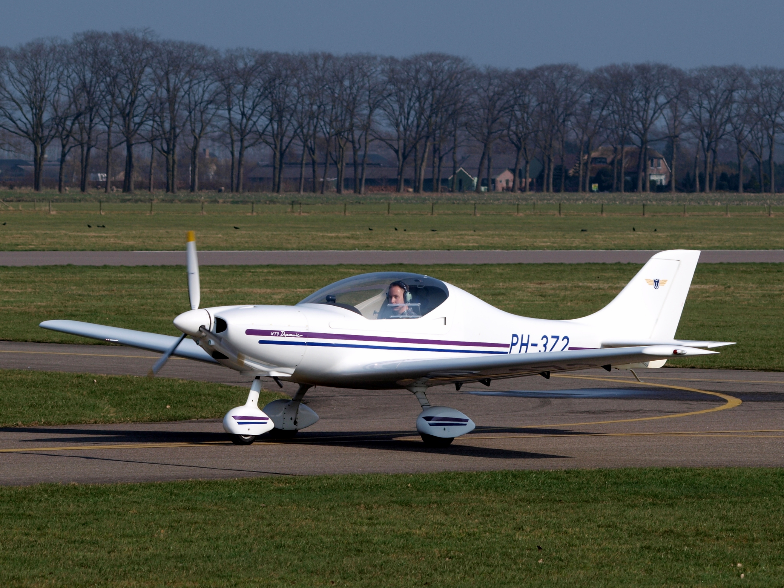 Photographed at Teuge International Airport. OLYMPUS DIGITAL CAMERA